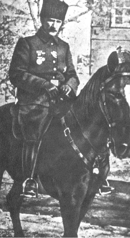 Mustafa Kemal Pasha in DiyarbekirTürkçe: Mustafa Kemal Paşa Diyarbekir'de